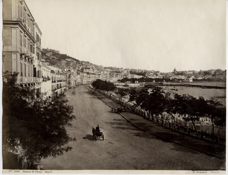 Giorgio Sommer (1834-1914), "Naples. Sea shore of Chiaja". Catalogue # 1120 bis.